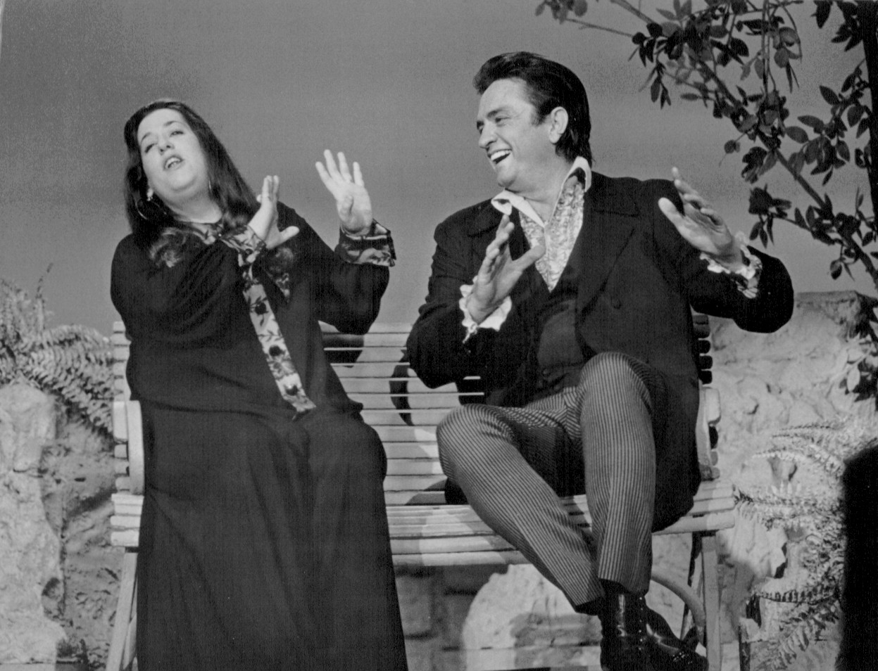 Publicity photo of Cass Elliot and Johnny Cash from The Johnny Cash Show.